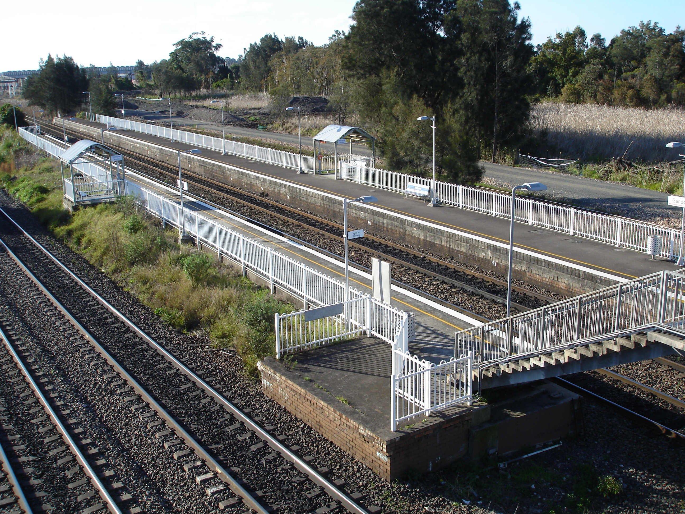 Sandgate Station taken by MrTwig